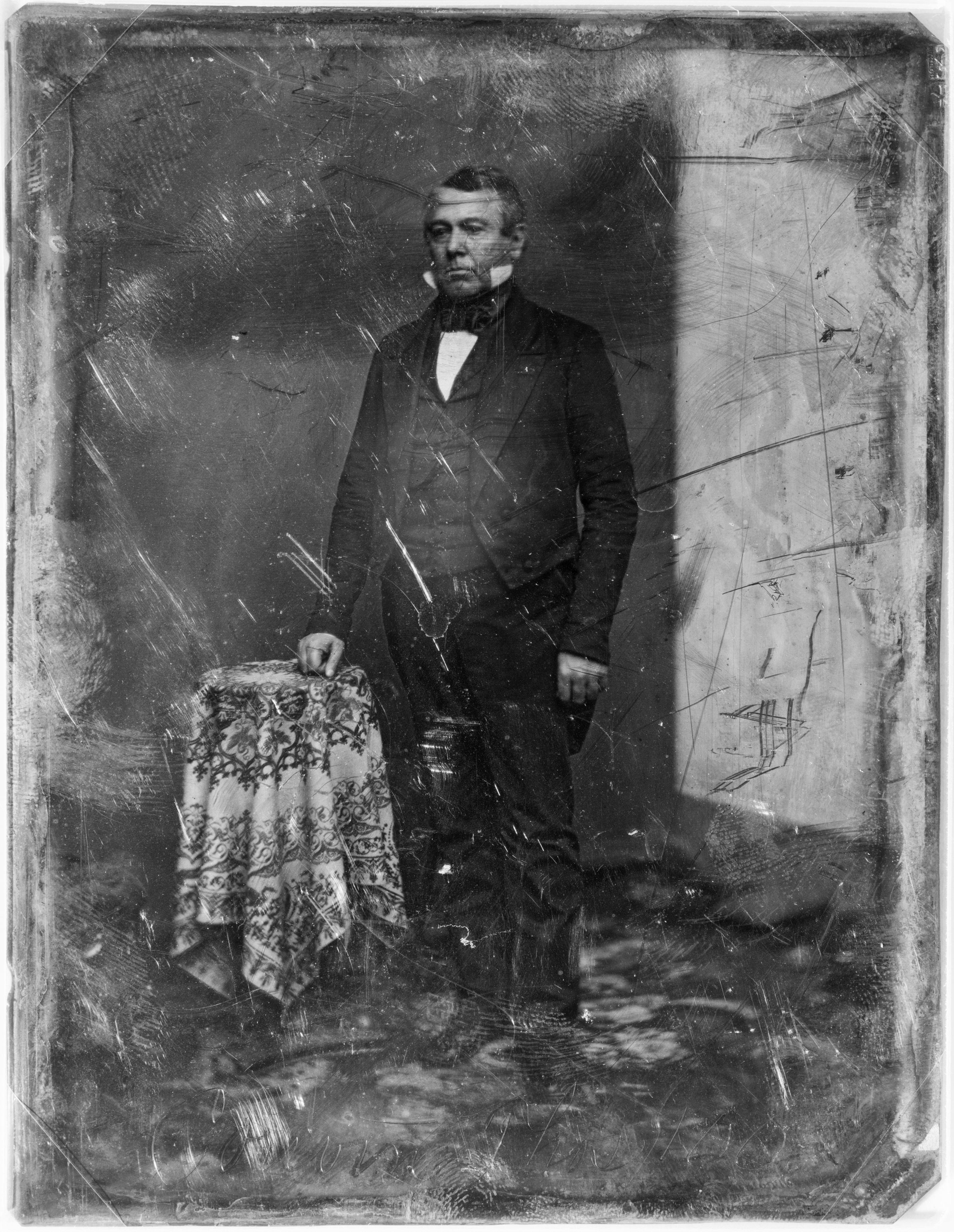 Thomas Corwin, politician from Ohio.